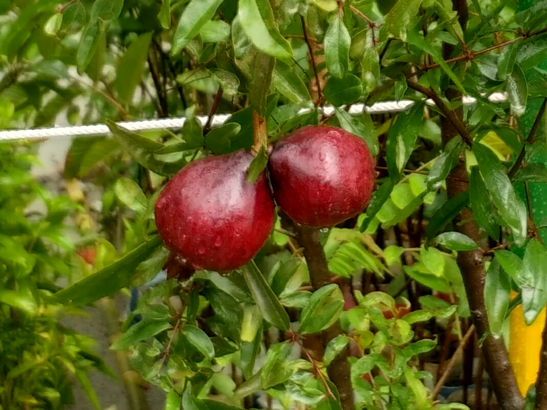 View of Punica granatum with tree and ripe fruit. This photo was captured from National Tree Fair 2018, at Sher-e-Bangla Nagar, Dhaka, Bangladesh.